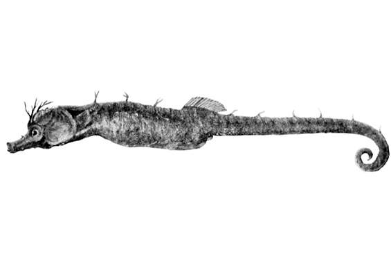 An illustration of the temperate Australian pygmy pipehorse Idiotropiscis australe Other information Previously used in: Dianne J. Bray & Vanessa J. Thompson, 2011, Southern Pygmy Pipehorse, Idiotropiscis australe, in Fishes of Australia, accessed 02 May 2013